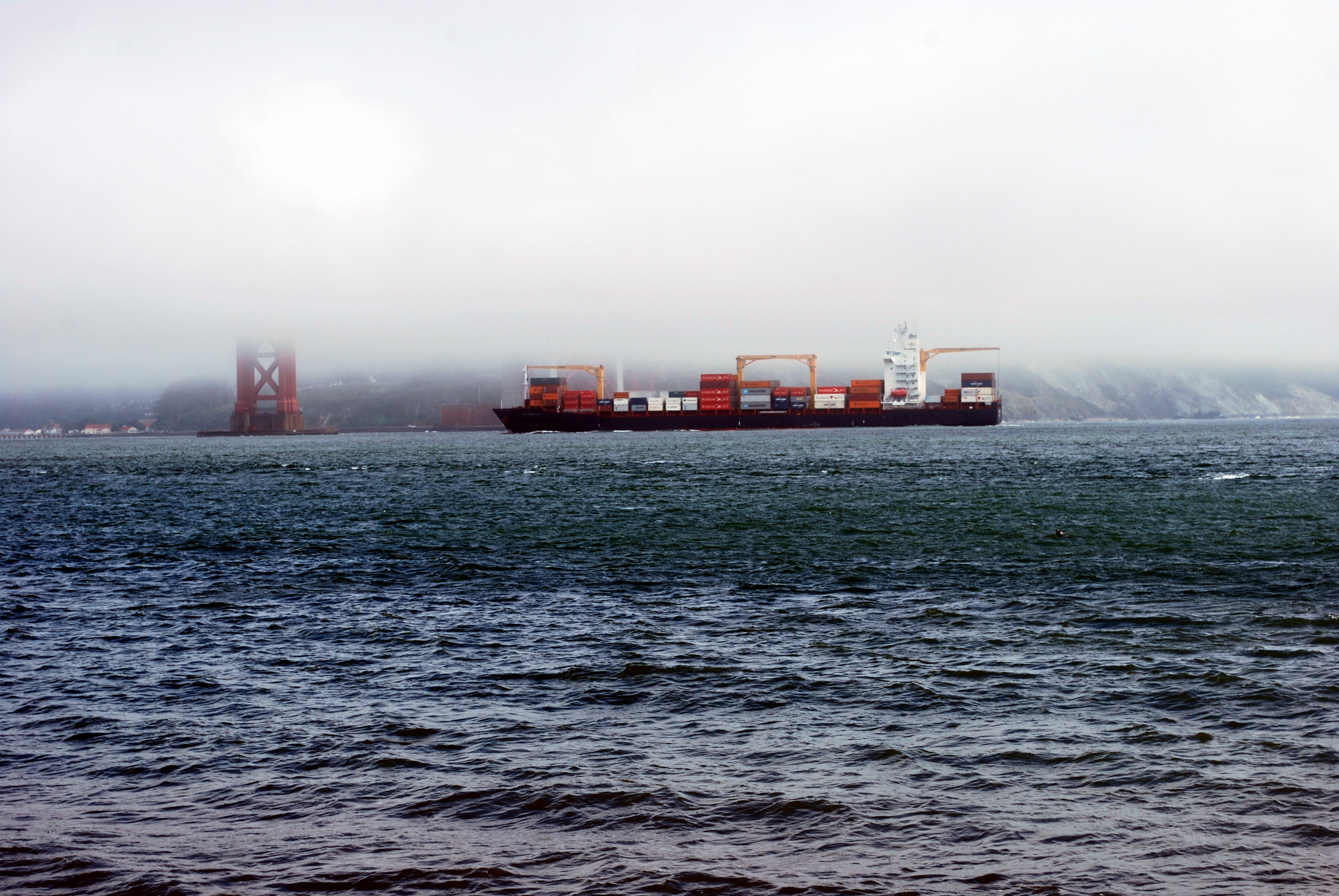 The sound of foghorns from the bridge accentuate the passage of ships into the Golden Gate.